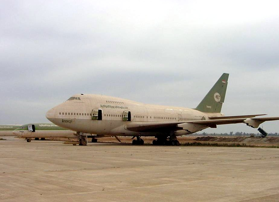 Iraq Airways Boeing 747-SP, 727-200, Baghdad International Airport(BIAP). Iraqi Airways, also known as Air Iraq, is the national carrier airline of Iraq, based in Baghdad and it is also the oldest airline of the Middle East. It operates domestic and regional services. Its main base is Baghdad International Airport. Iraqi Airways is a member of the Arab Air Carriers Organization. The Iraqi Airways fleet consists of the following aircraft (as of November 2007): 1 A300B4-2C (operated for Govt.) 2 Boeing 727-200 (operated by Teebah Airlines) 2 Boeing 737-200 (1 operated by Teebah/stored at Amman, 1 operated by Dolphin Air) Iraqi Airways has 5 Boeing 737-400 aircraft on order. The Boeing 737-400s will be acquired on lease. Former fleet: Iraqi Airways fleet was composed of the following aircraft types from the 1970s until 2003, some of these aircraft were stored in Amman, Beirut and Tehran during the 1990 Gulf war, air worthy ones operated a few Hajj flights during the 1990s: Antonov An-24 Boeing 707-320 Boeing 727-200 Boeing 737-200 Boeing 747-200 Boeing 747 SP (passenger and government) Ilyushin IL-76 cargo freighter Four Airbus A310-300 were also ordered in the late 1980s but war related sanctions prevented Iraq from getting them and they were never built. Post 2003 they also operated a single Boeing 767-200 and a 757-200 for a short while.